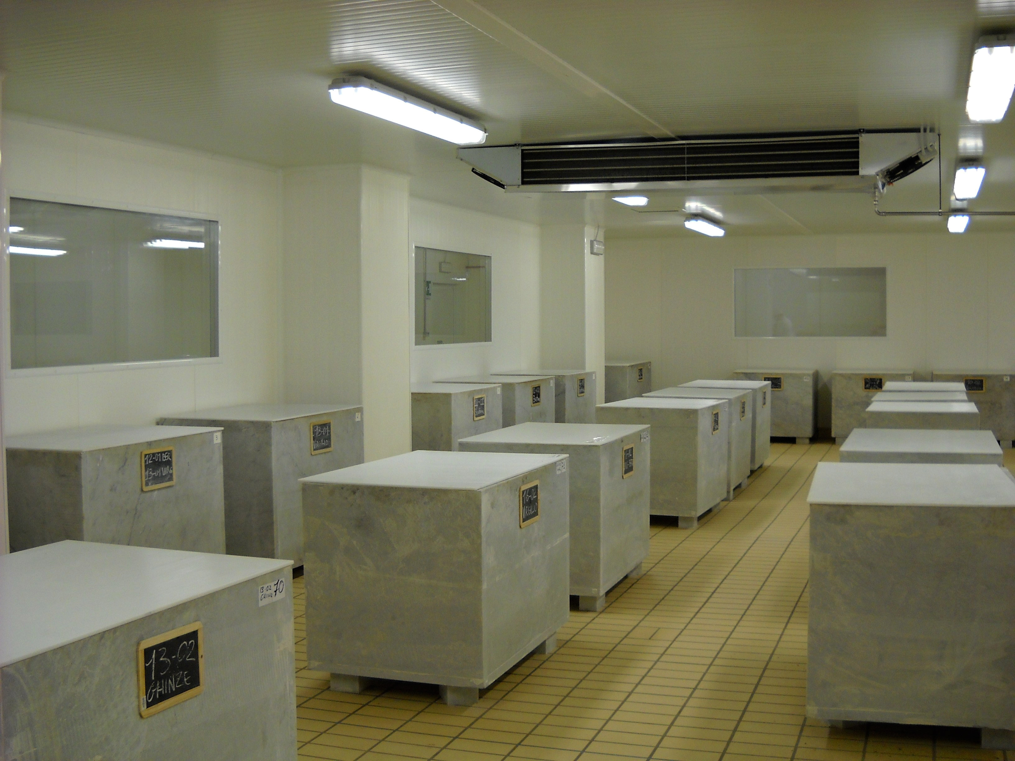 Cellar for Lardo di Colonnata, Tuscany - Italy.